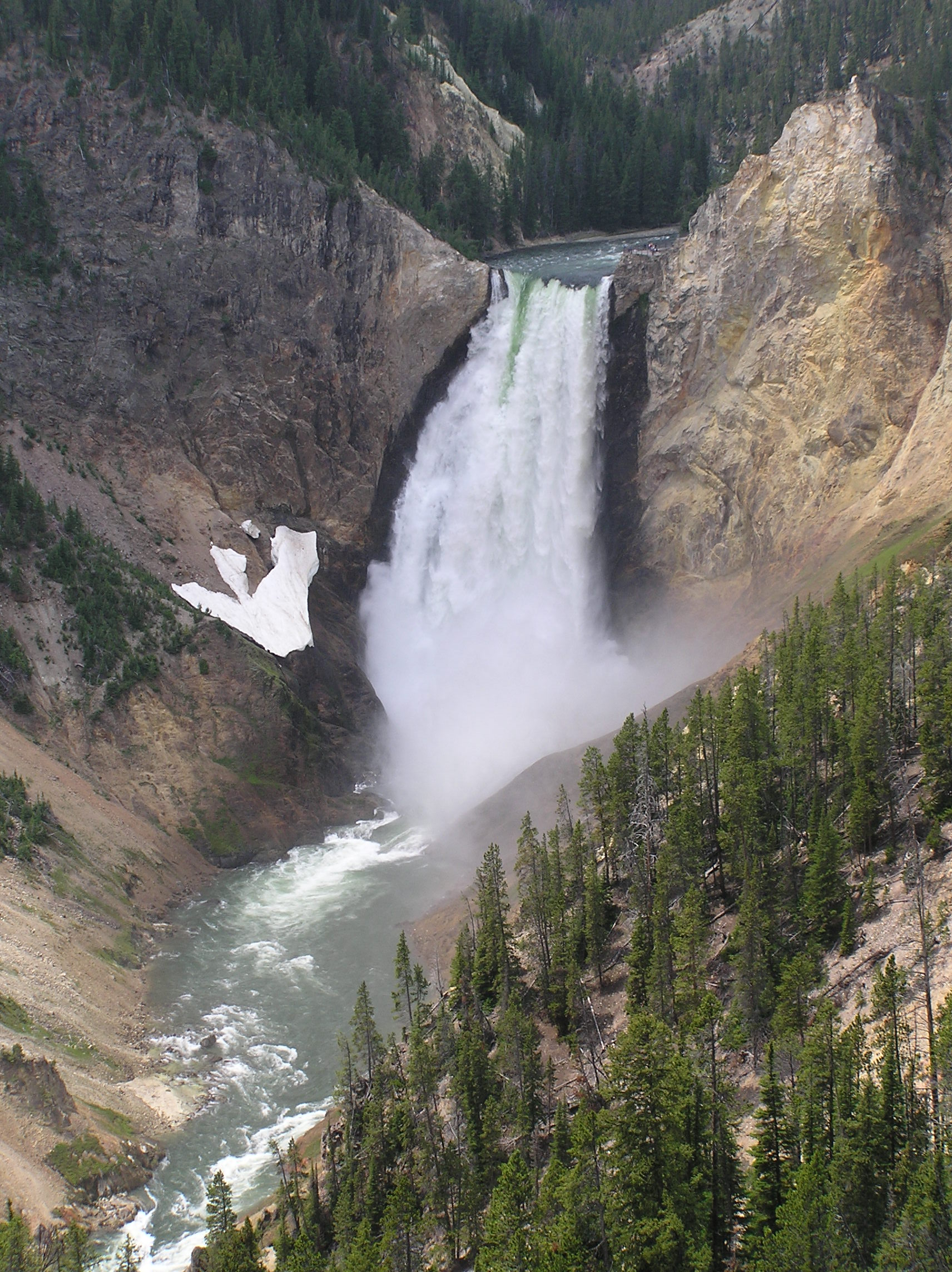 Lower Yellowstone Falls closeup. Yellowstone National Park, Wyoming, USA.